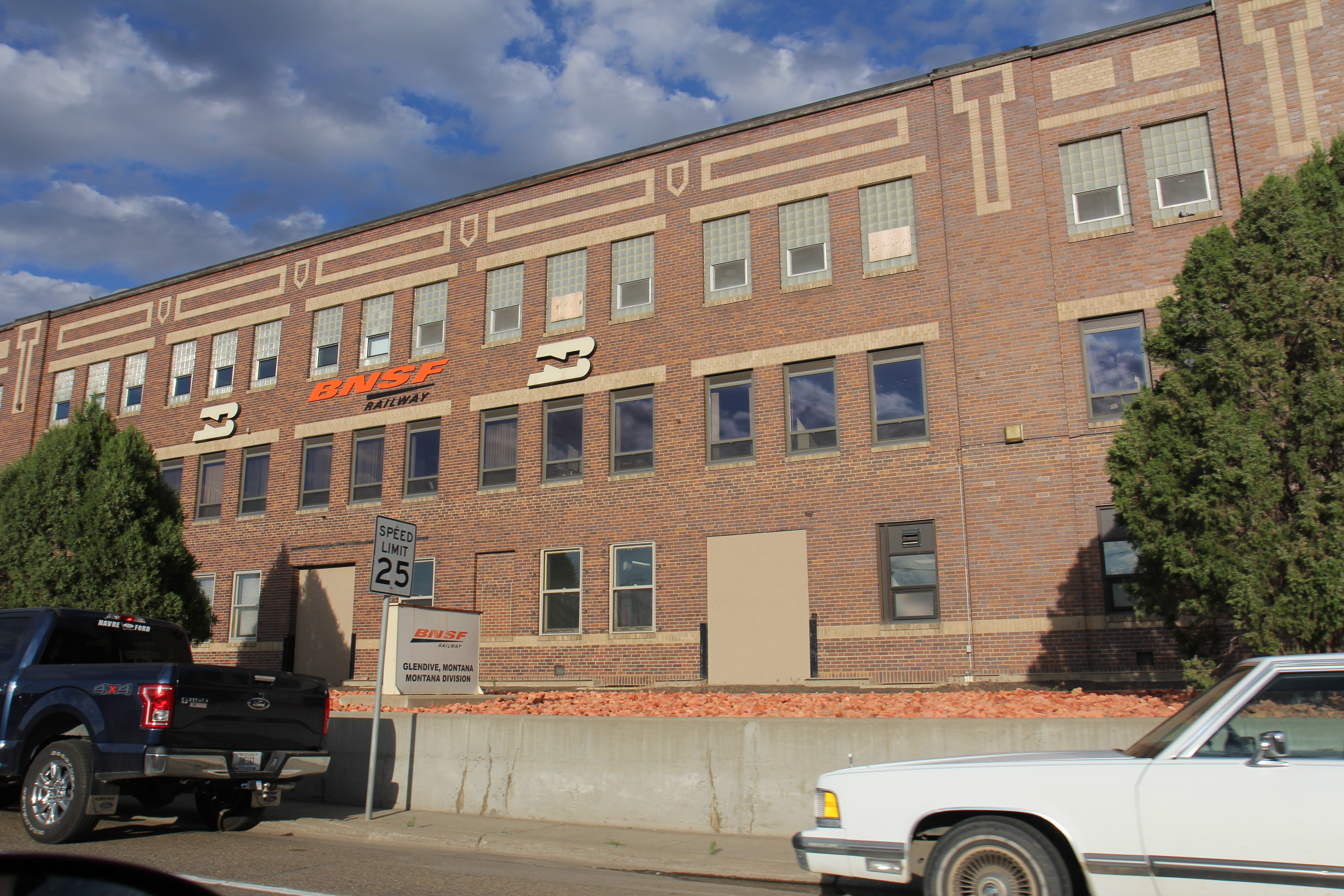 The BNSF Railway building in Glendive, Montana. The building is included in the Merrill Ave. Historic District which is listed on the National Register of Historic Places.